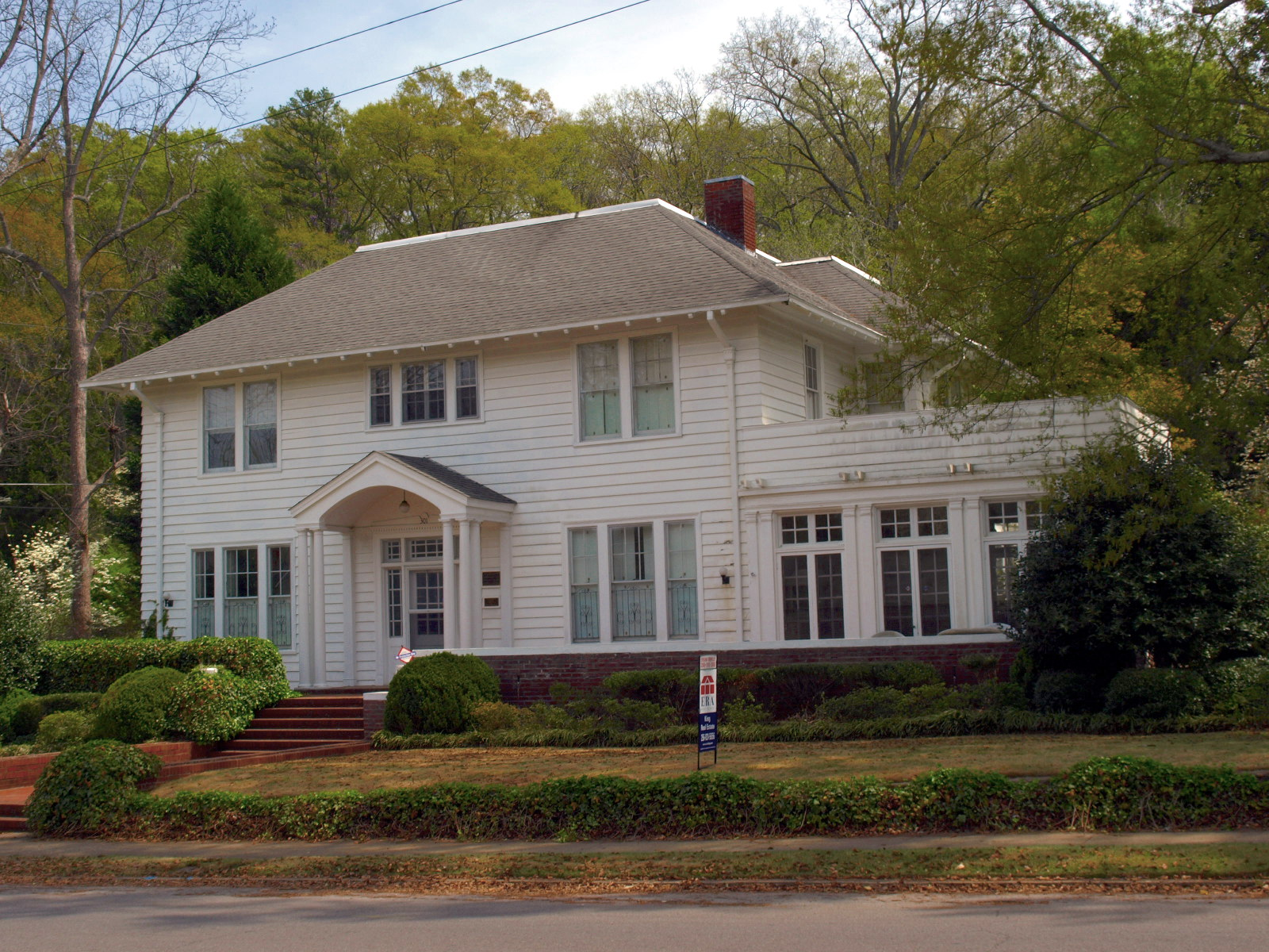 The Davis C. Cooper House in Oxford, Alabama, listed on the National Register of Historic Places